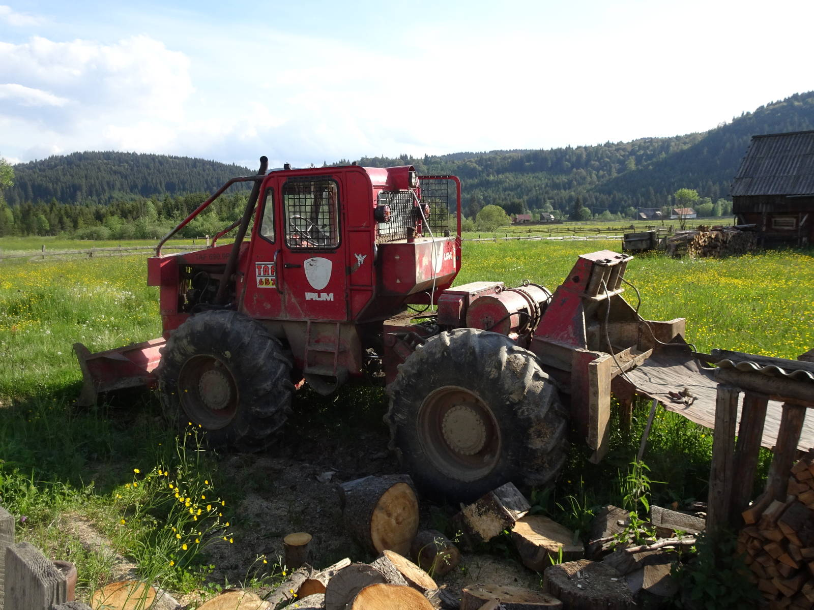 TAF forestry tractor, Comandau, Harghita, RO